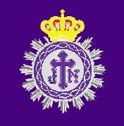 Marraja Brotherhood